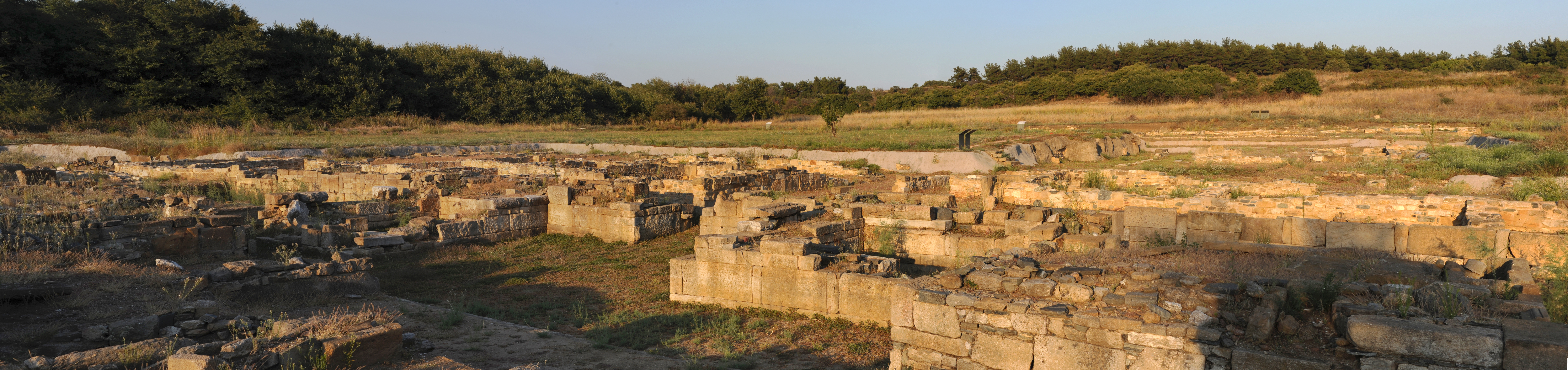 Archeological Site of Abdera Xanthi Thrace Greece